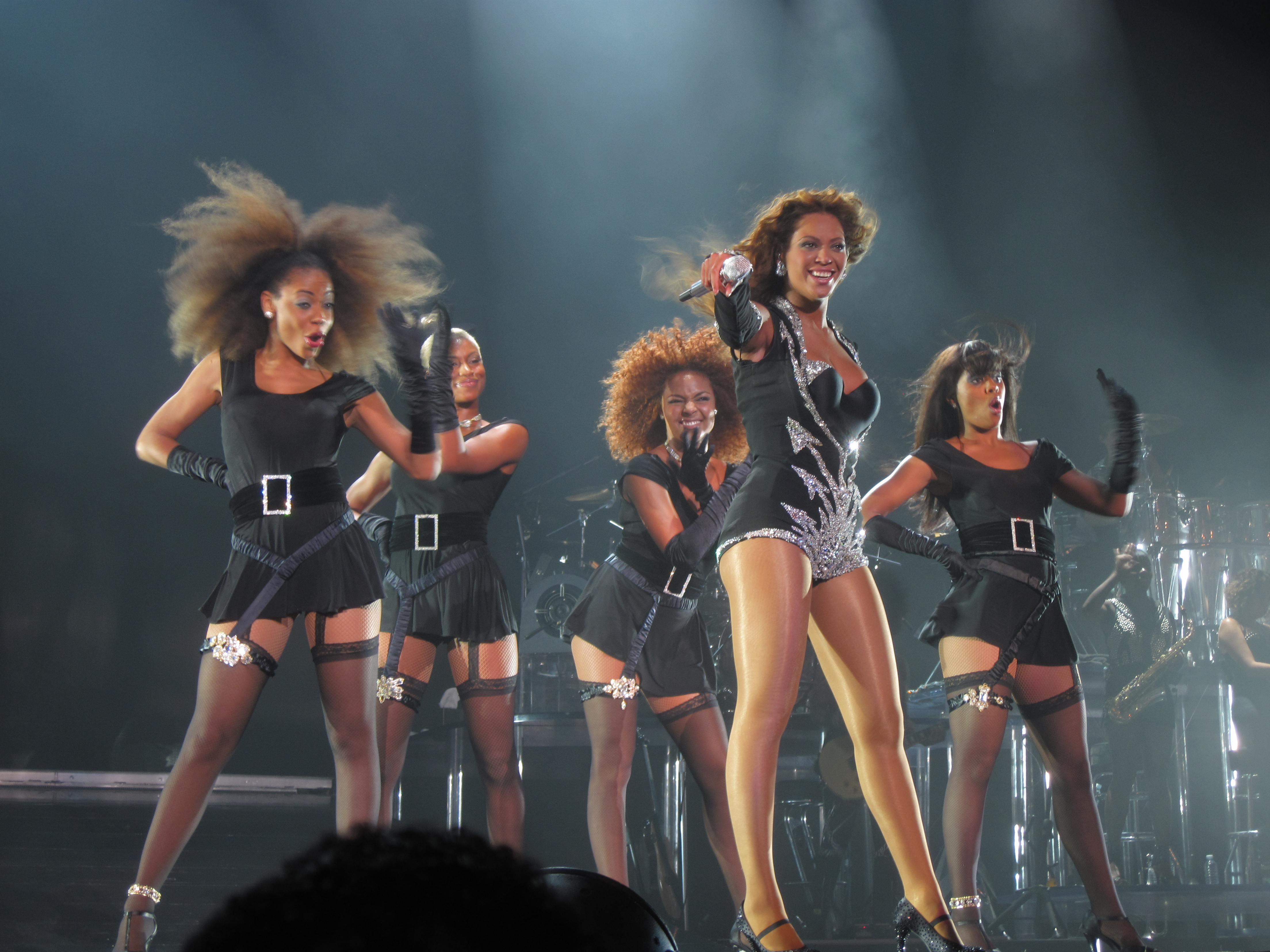 Beyoncé performing on The O2 in London.